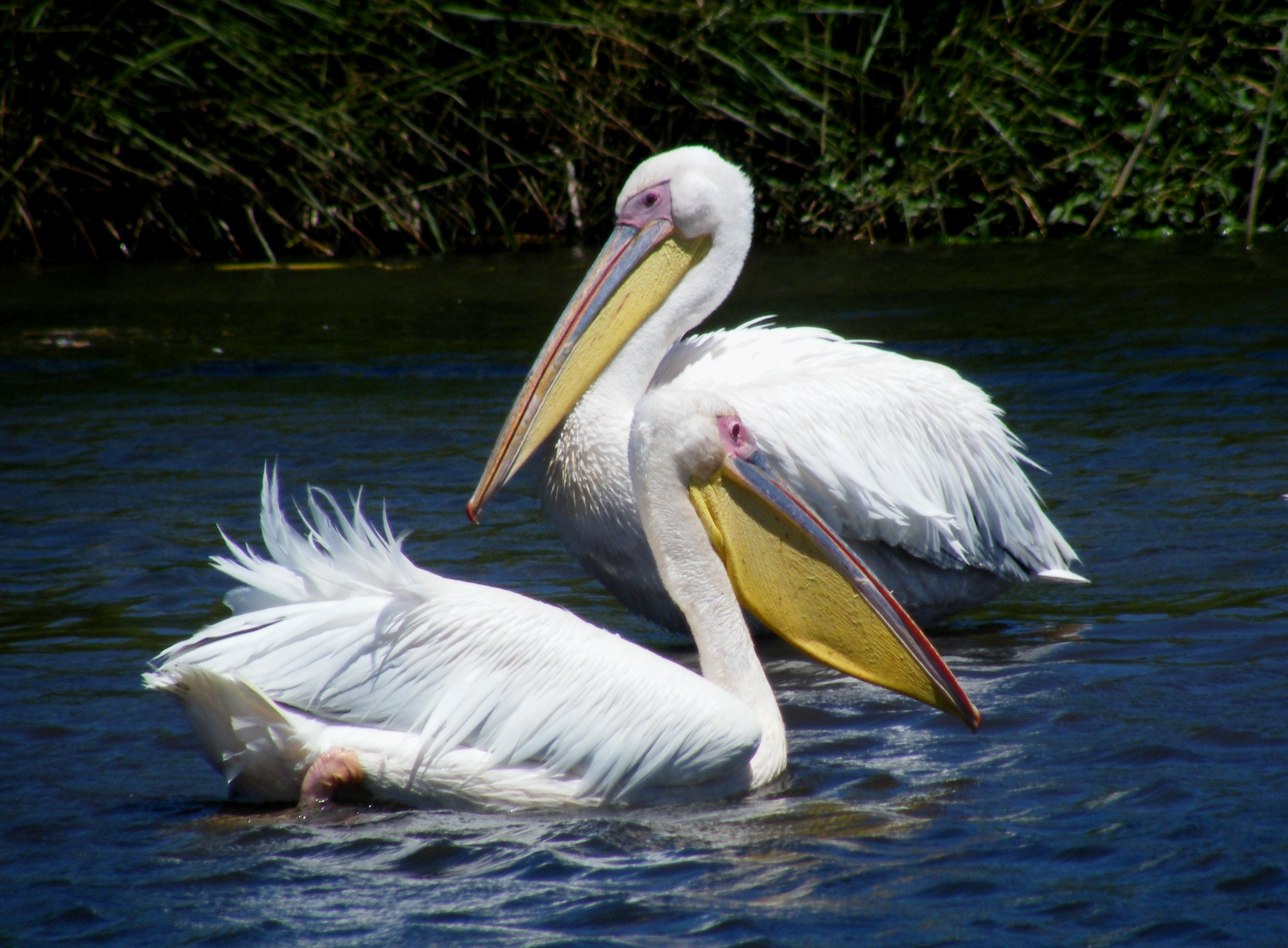 Great White Pelecan in breeding plumage. Liesbeek River Observatory, Cape Town.